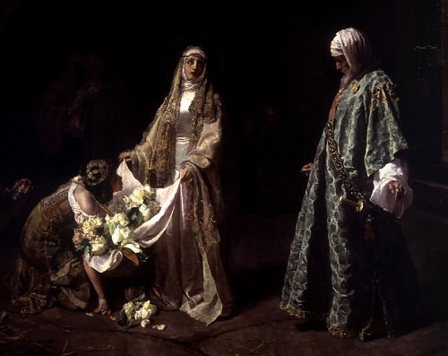 the miracle of the Roseslabel QS:Les,"El milagro de las rosas" label QS:Len,"the miracle of the Roses"